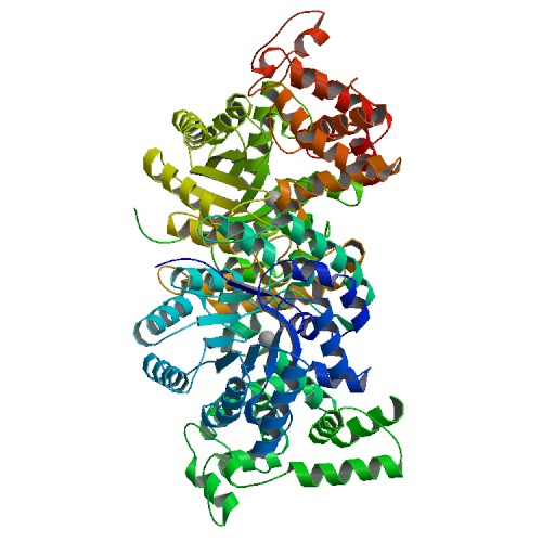 Oxaloacetate decarboxylase is a membrane-bound multiprotein complex that couples oxaloacetate decarboxylation to sodium ion transport across the membrane.